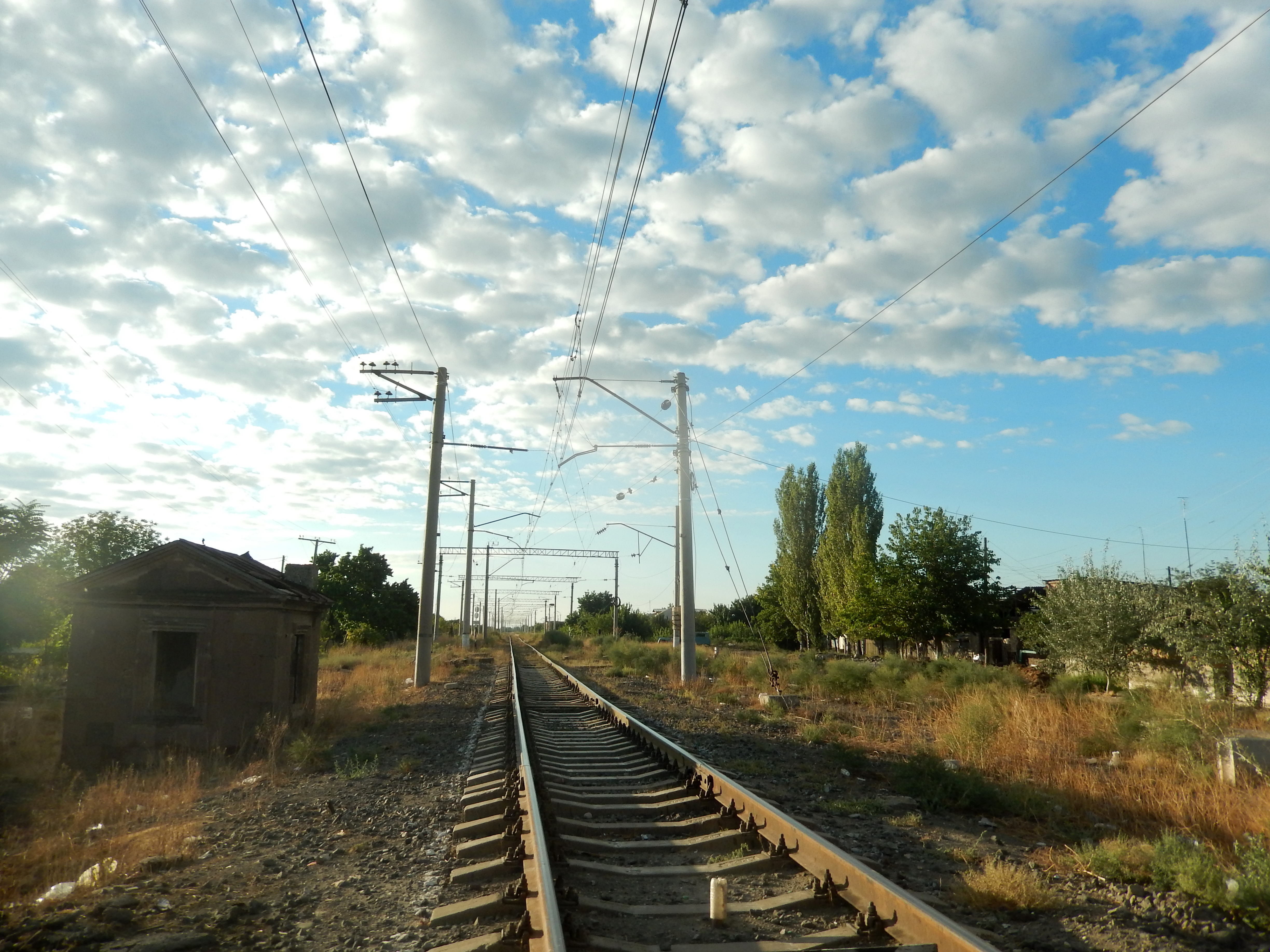 Railway in Vosketap village, Ararat Province